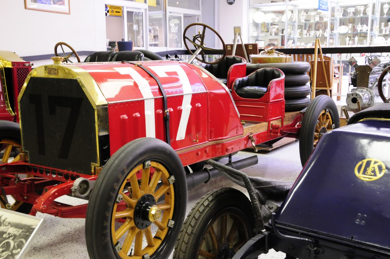 1907 Itala Grand Prix Racer 14.75 liters (900 cubic-inches)